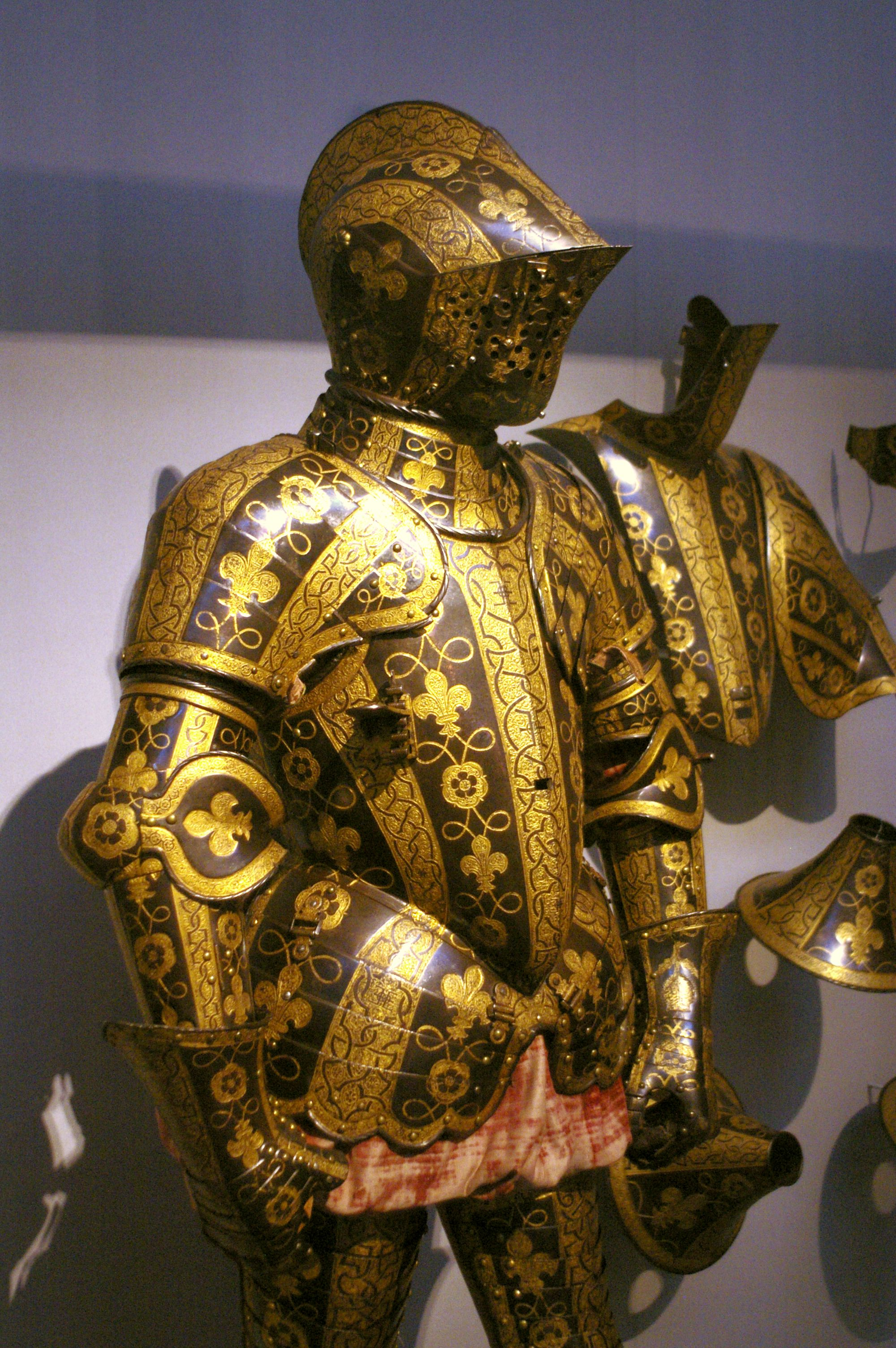 The tournament armour of Sir George Clifford